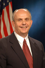 Joseph R. Donovan Jr